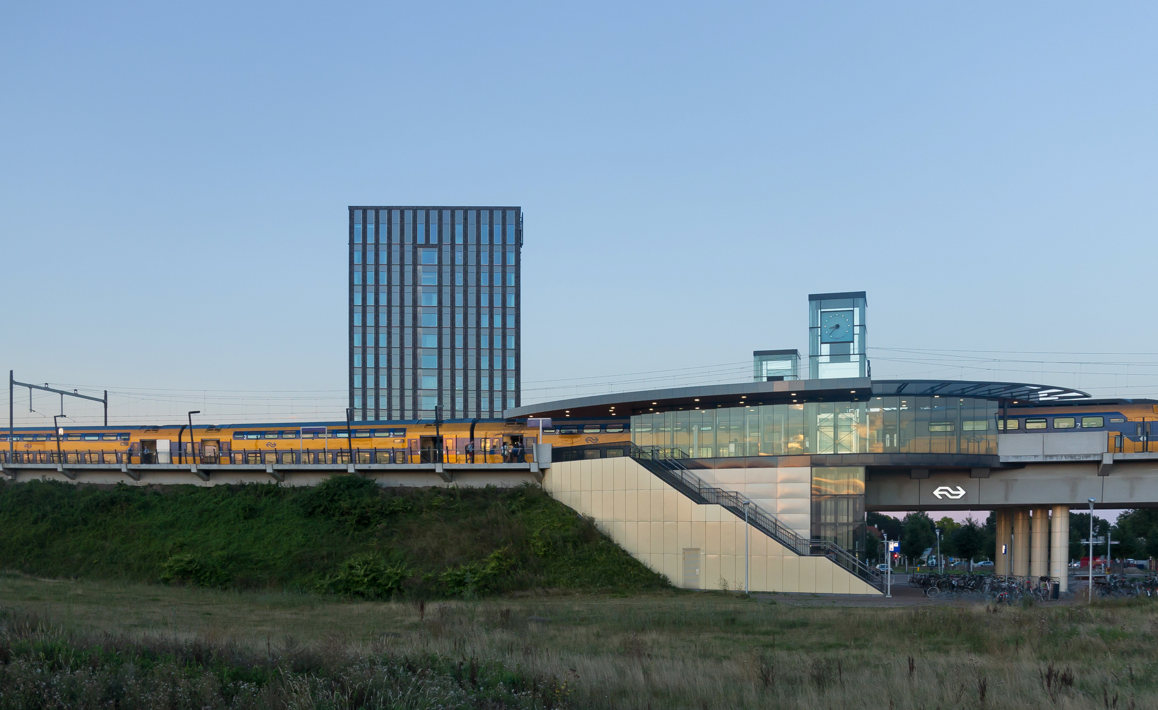 Lent, railway station: Nijmegen-Lent